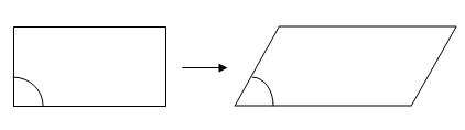 simple graphics to explain shearing